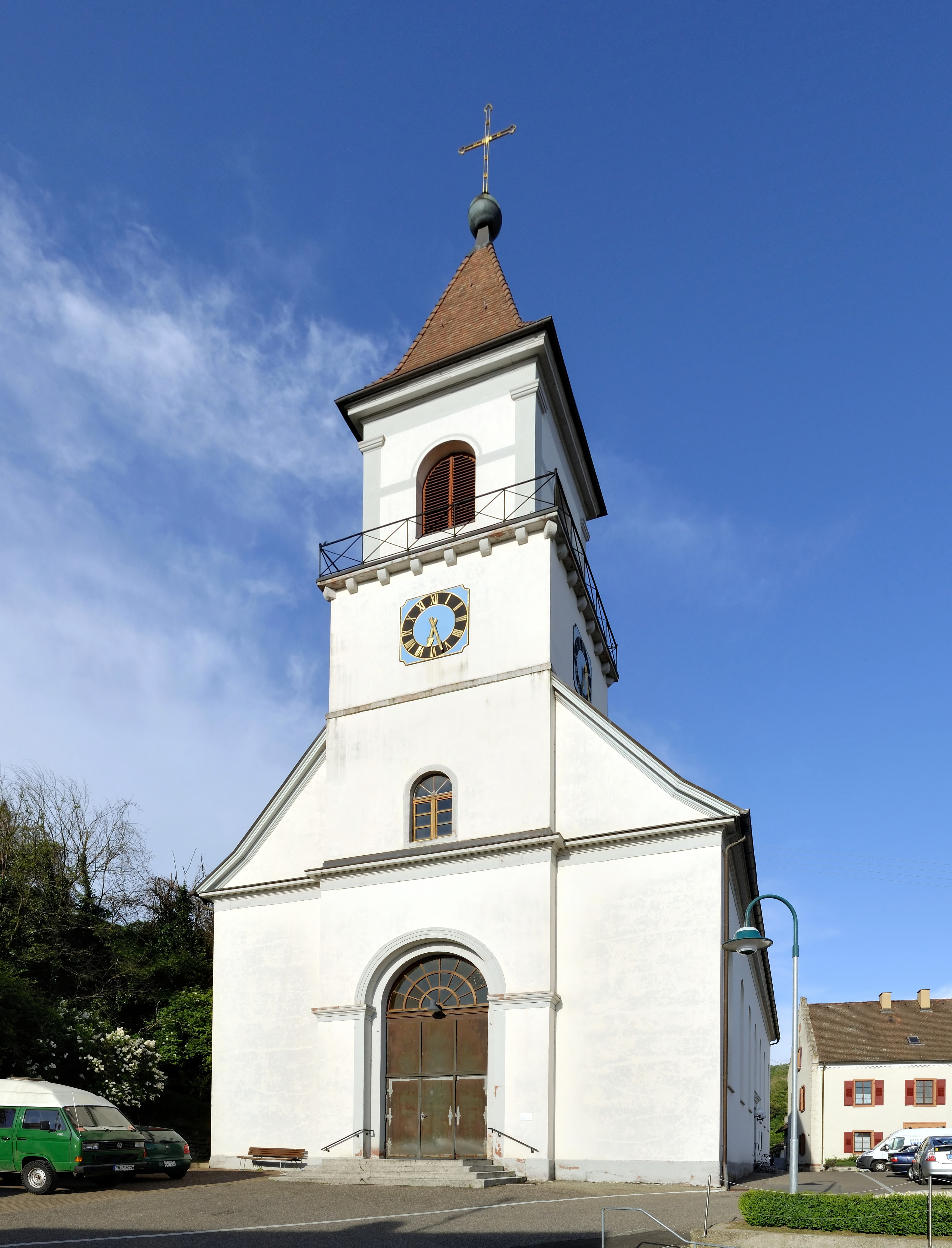 Istein: Saint Michaels Church